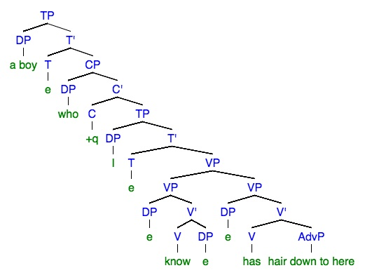 Phrase tree structure for grammatical sentence "A boy who I know has hair down to here."